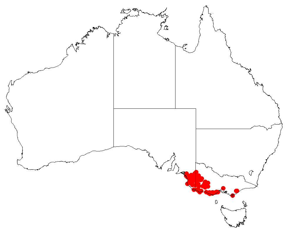 Hakea repullulans Occurrence data downloaded from Australasian Virtual Herbarium on 22 November 2018 using